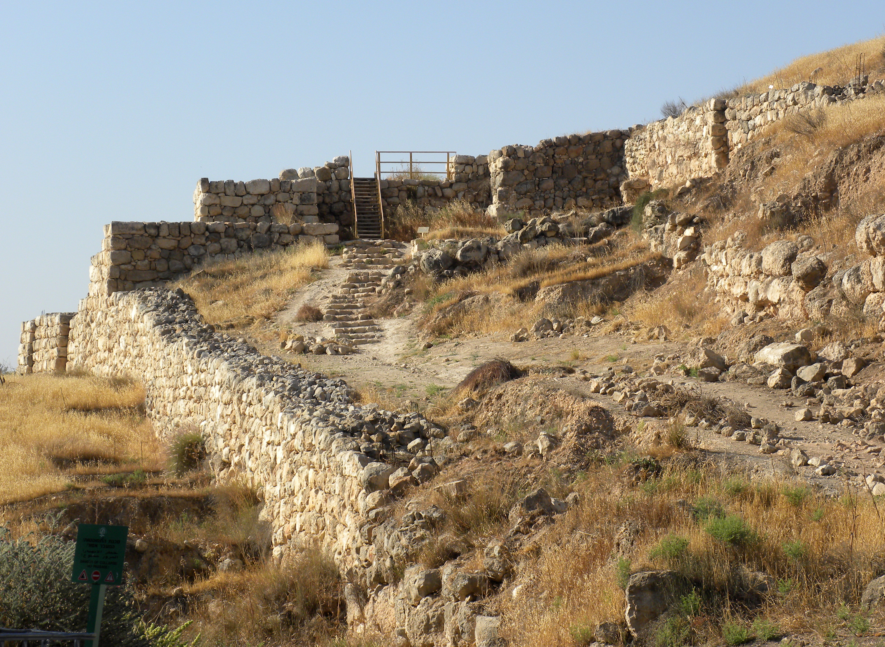 Main gate, Lachish archaeological site, Israel.